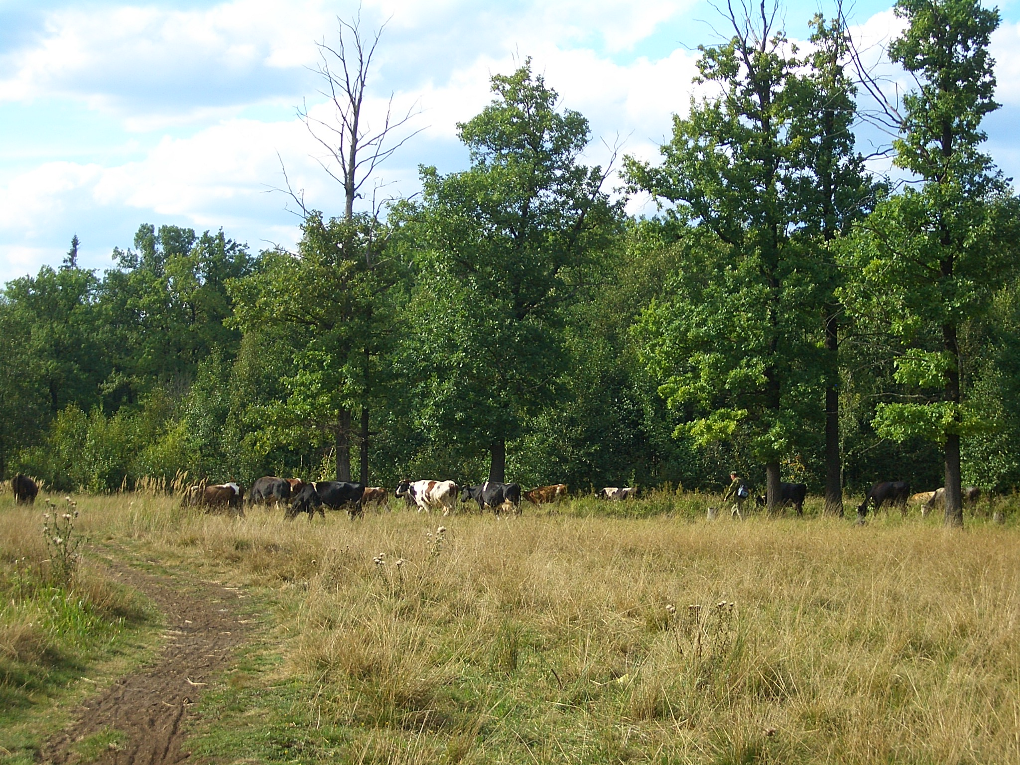 The forested area between Pravdinsk and Balakhna proper is used both for recreation and as a cow pasture